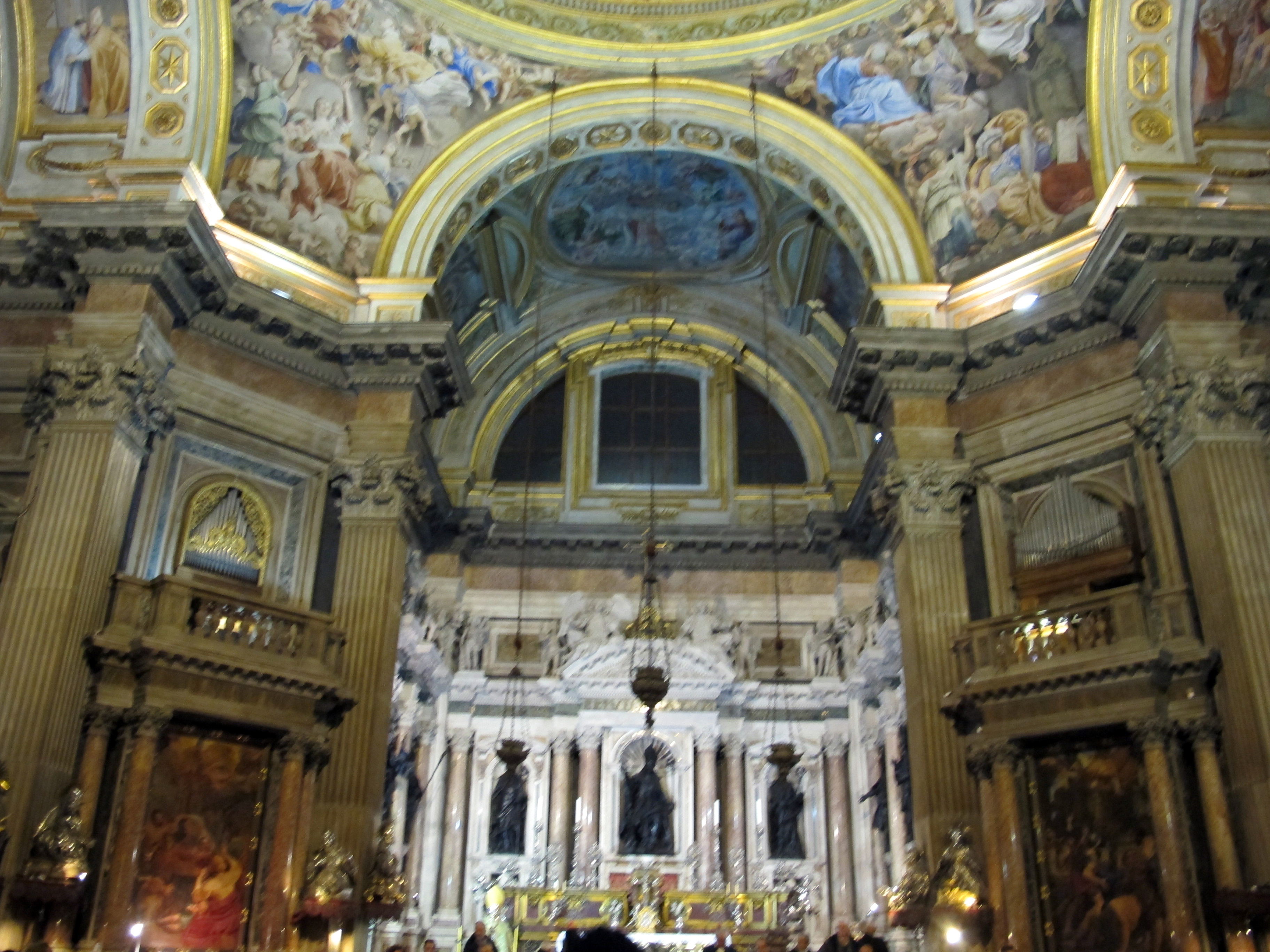 Cathedral (Naples) - Cappella di San Gennaro